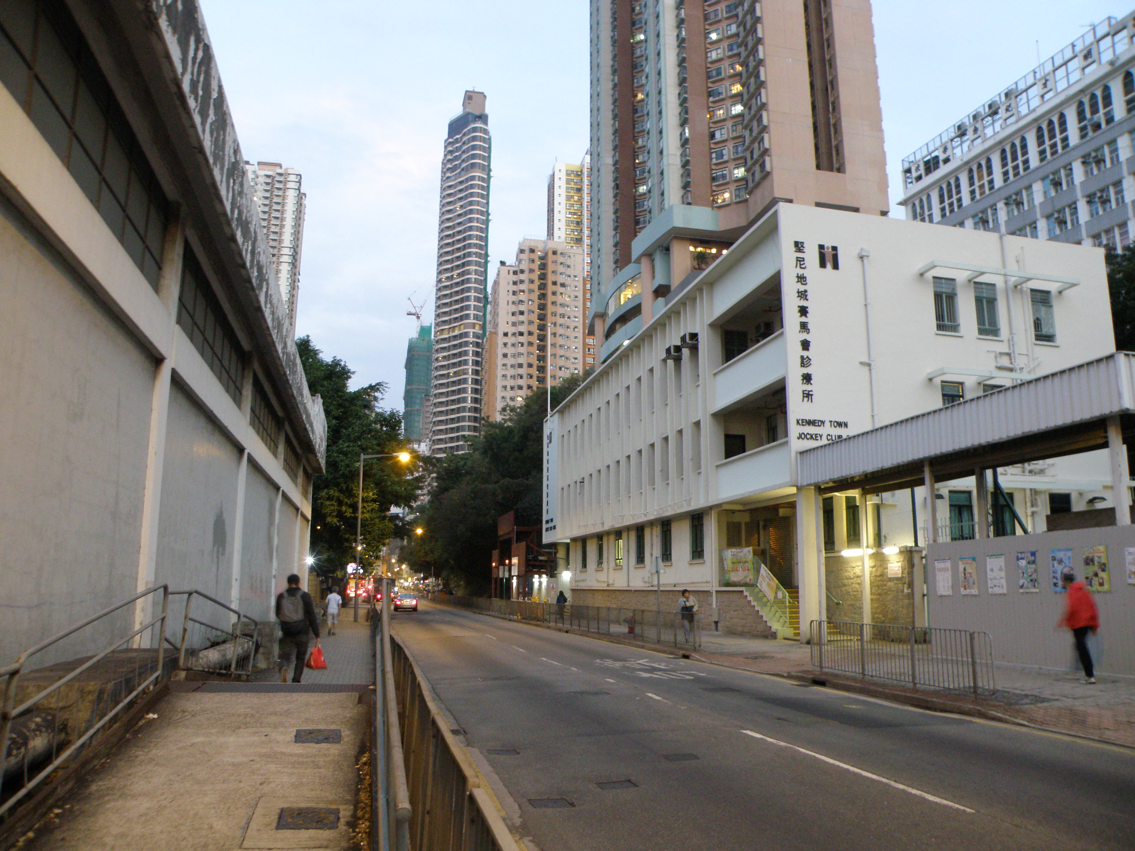 Victoria Road (north end) in Kennedy Town, Hong Kong.